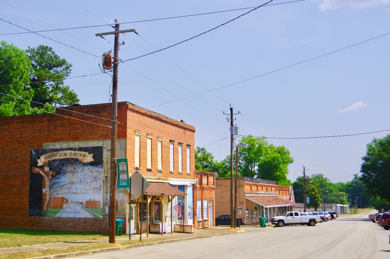 Businesses along Depot Street in Canon, Georgia, United States.